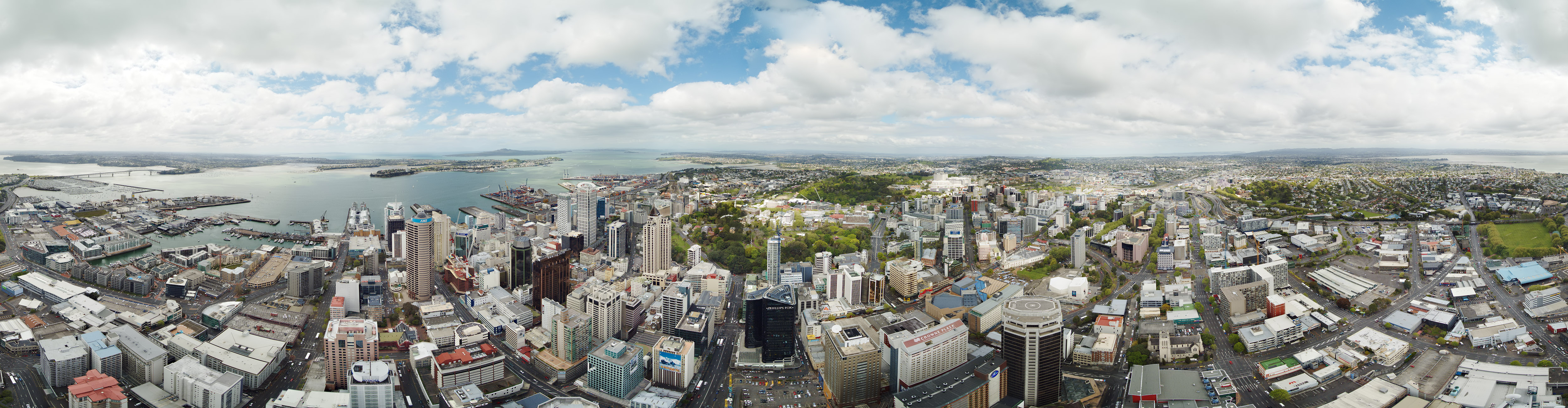 360xapprox. 90degree panorama from the sky deck of Sky Tower, Auckland, New Zealand. Stiched from 34 images using Hugin.